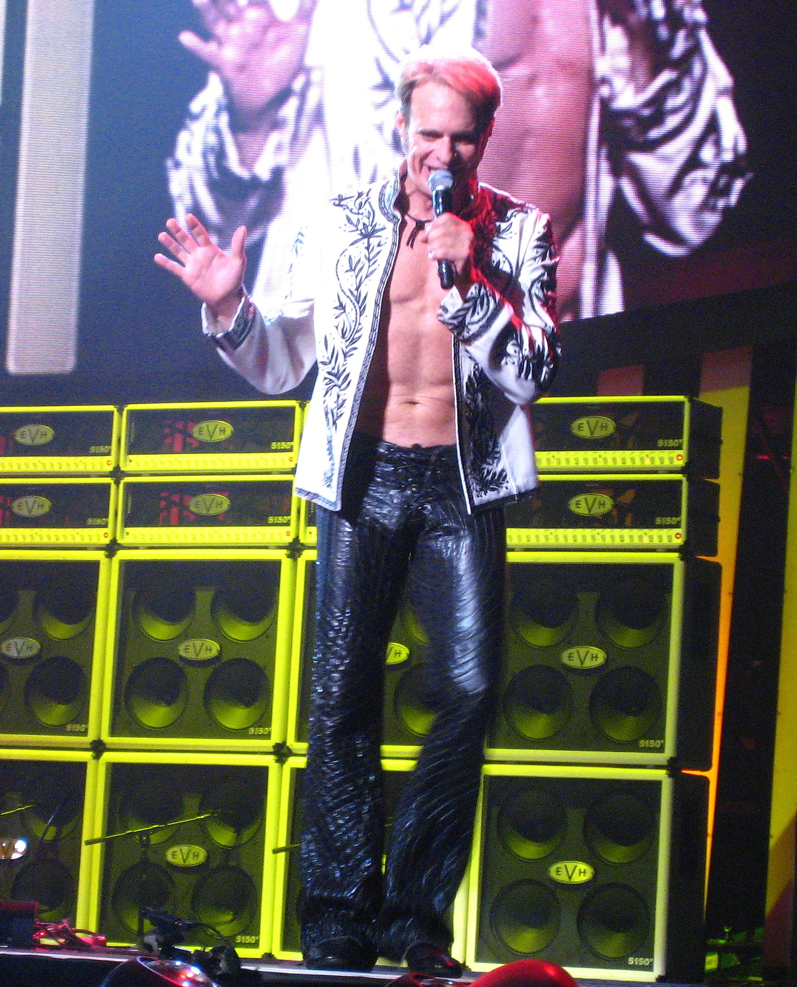 Taken at The Van Halen Tour featuring David Lee Roth (lead vocals), Eddie Van Halen (guitars), Wolfgang Van Halen (bass) and Alex Van Halen (drums). The concert was held at Bell Center, Montreal on 10th November, 2007.